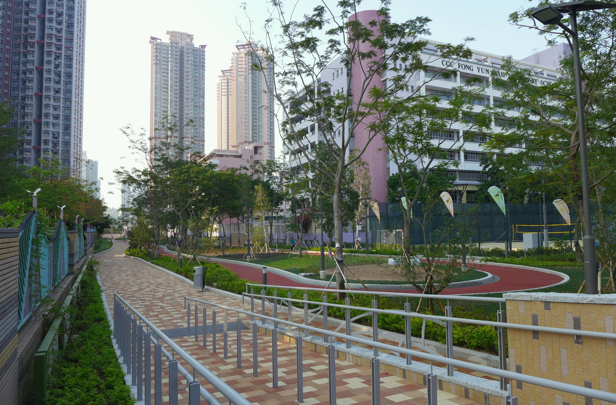 Tin Yip Road Park